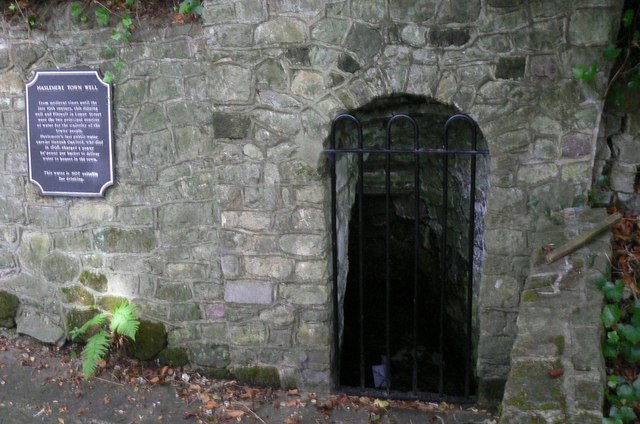 Haslemere Town Well. This is one of the old wells serving the area. See 1101181 for a close-up of the notice. The well is in dire need of cleaning out.